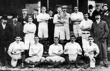 The Manchester City team that won the 1898-99 second division title.